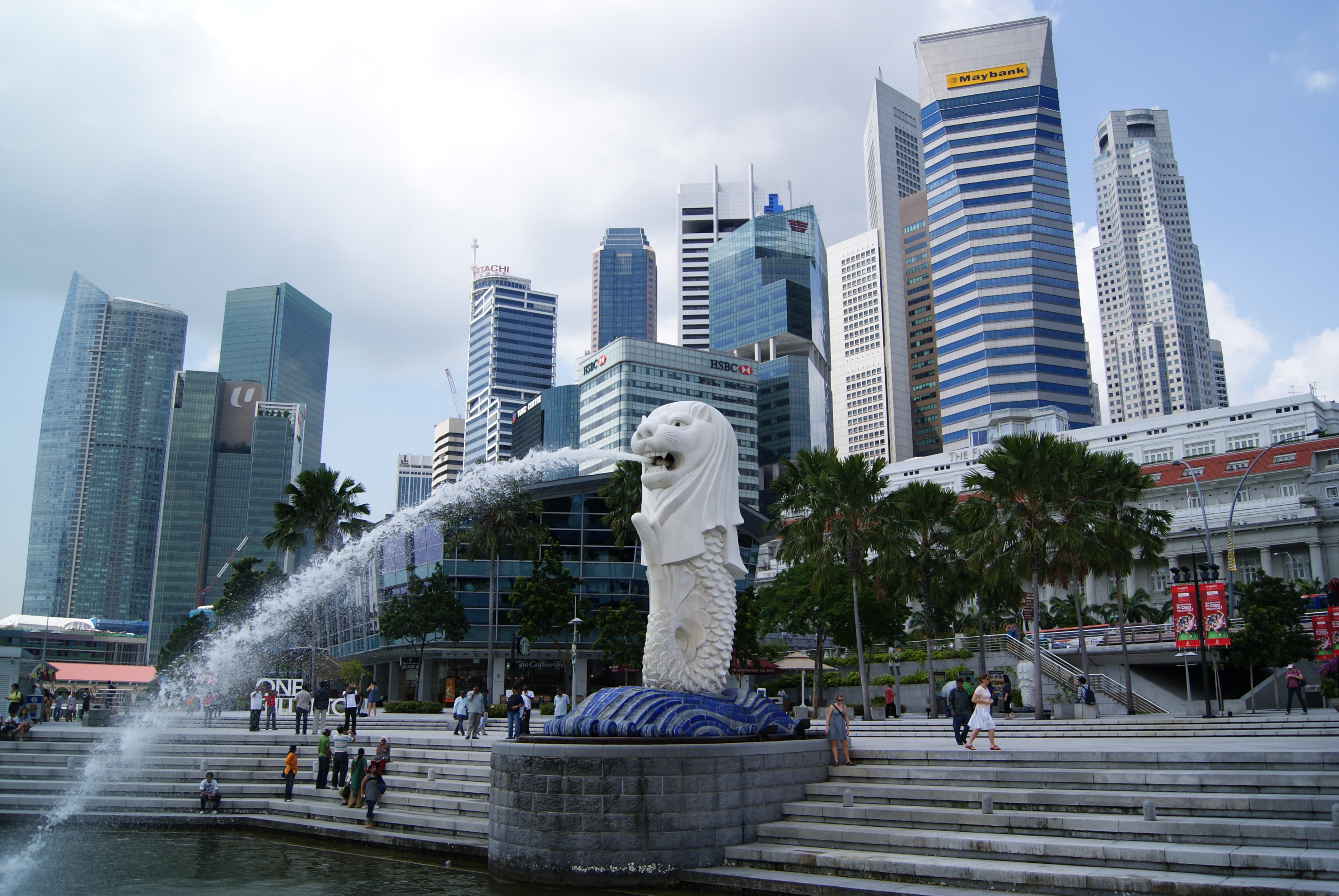 The Merlion statue in Merlion Park, with the skyscrapers behind.